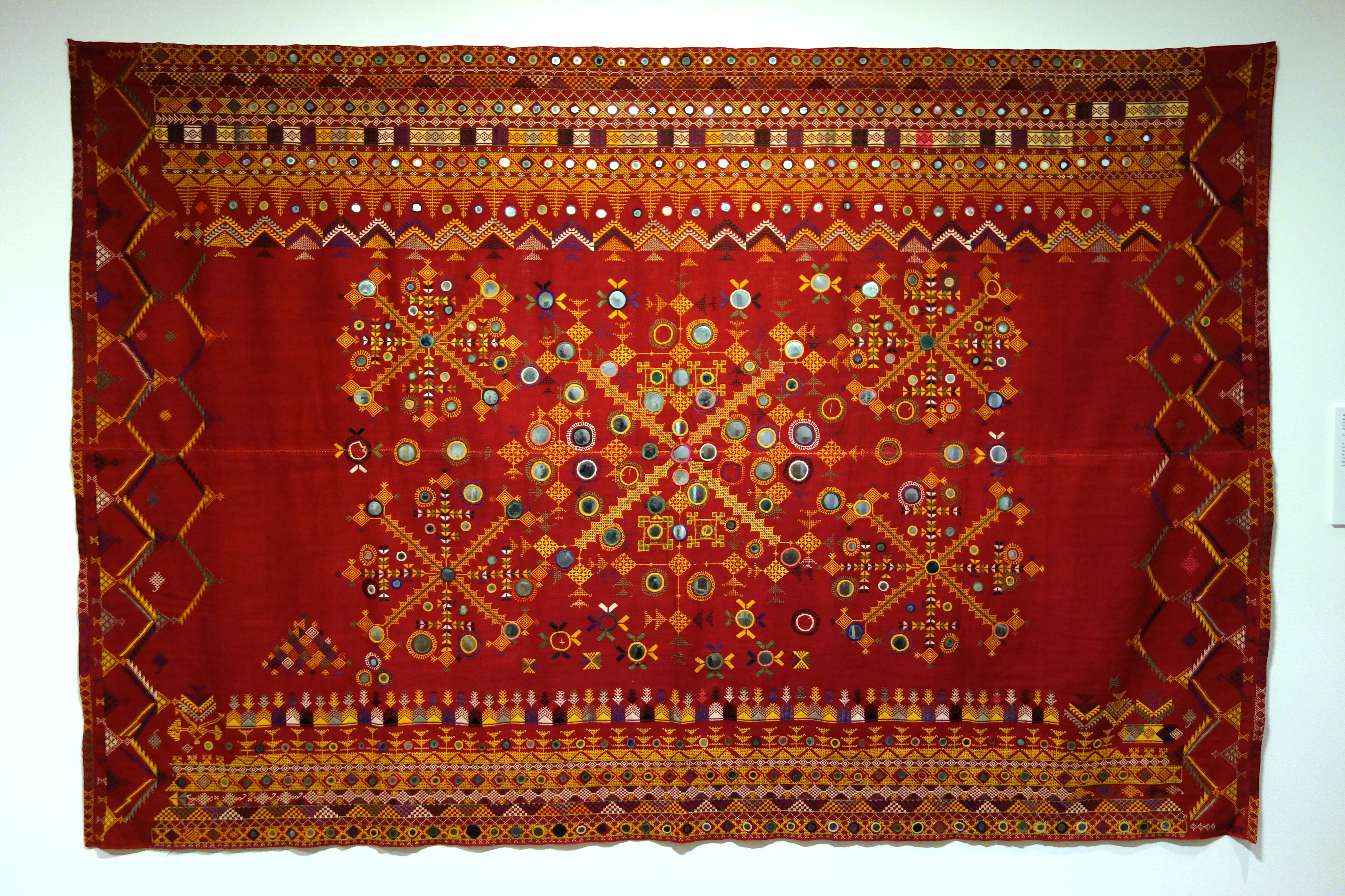 Exhibit in the Textile Museum of Canada, 55 Centre Avenue, Toronto, Ontario, Canada.